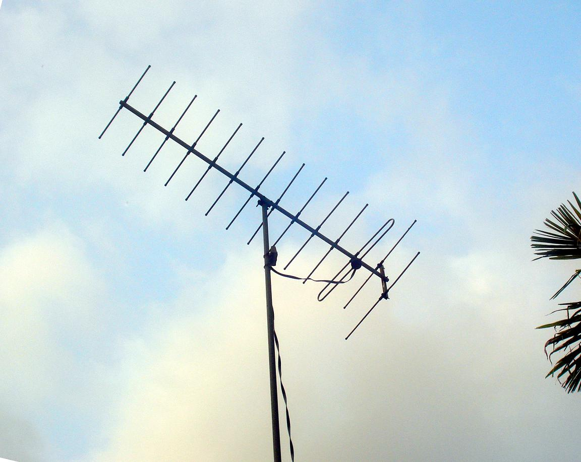 A Yagi television antenna used for fringe reception of television signals in the VHF frequencies. It has a driven element consisting of a folded dipole to match the impedance of the 300Ω twin lead feedline to the television receiver. The other rods are called parasitic elements. The antenna has 11 "directors" (to left) which strengthen the signal and 2 "reflectors" on a vertical cross boom (right) which reflect the signal back toward the driven element. The antenna's beam direction is toward the upper left.